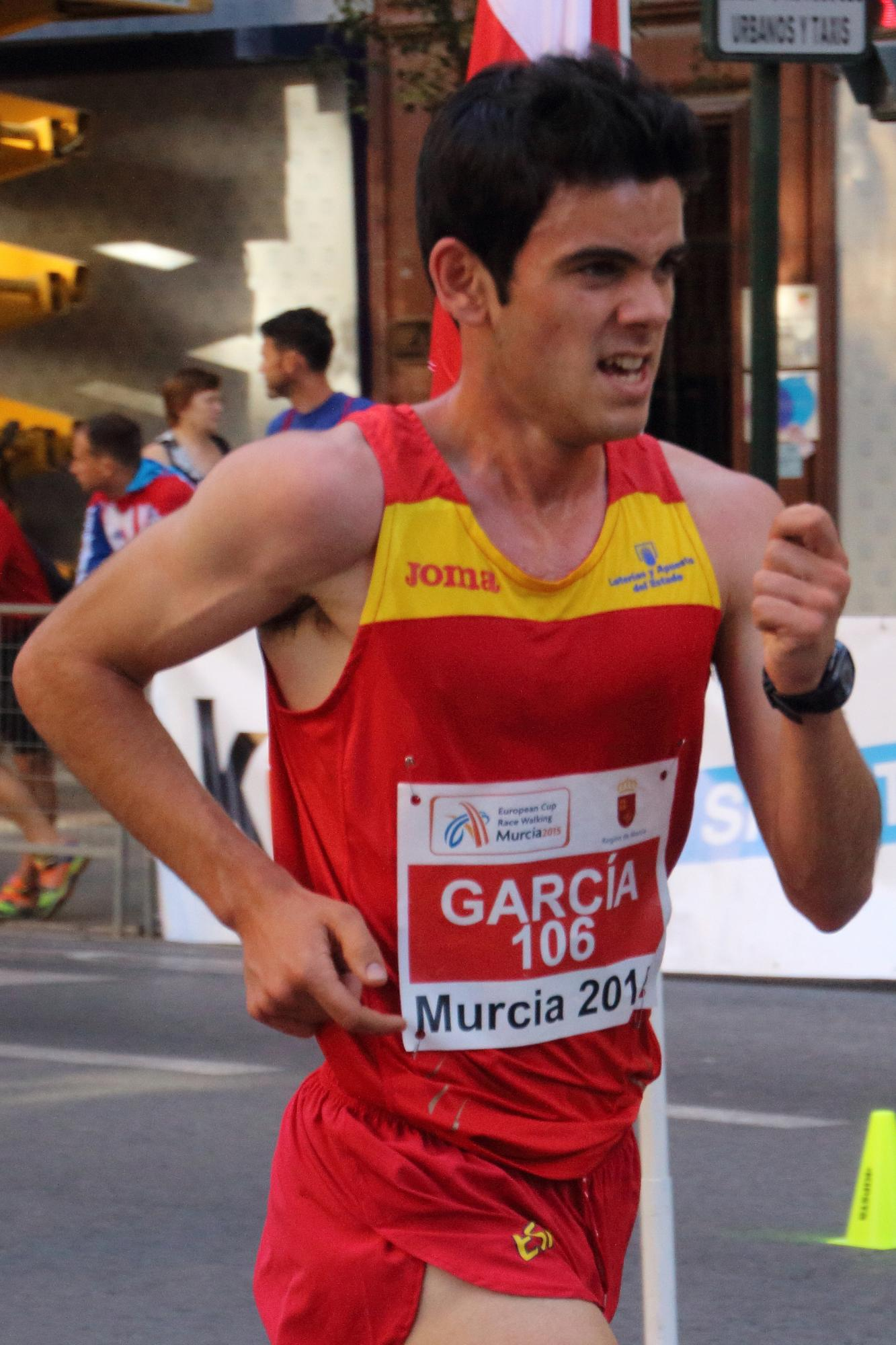 Diego Garcia Carrera in the European Race Walking Cup. Murcia (Spain), May 17, 2015.